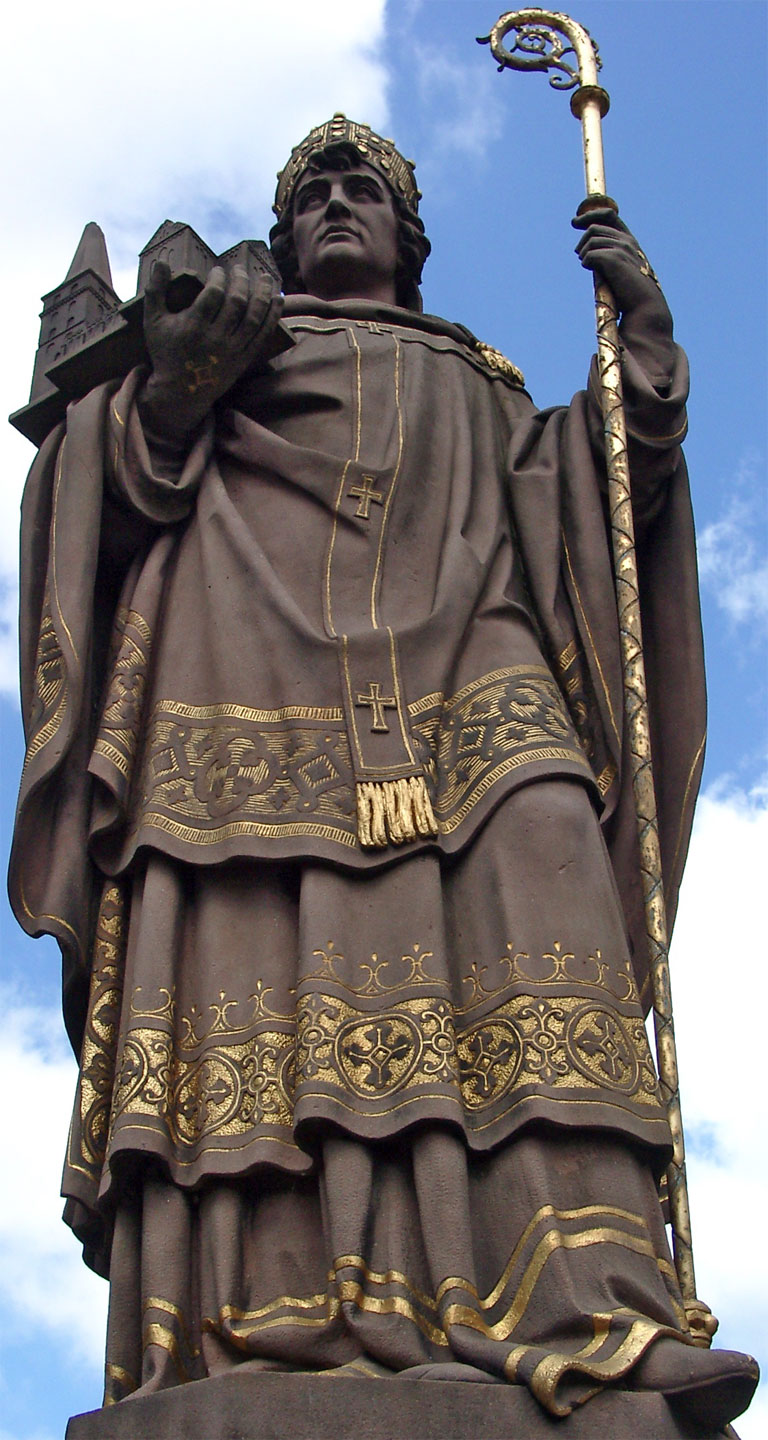 This is a photograph of an architectural monument.